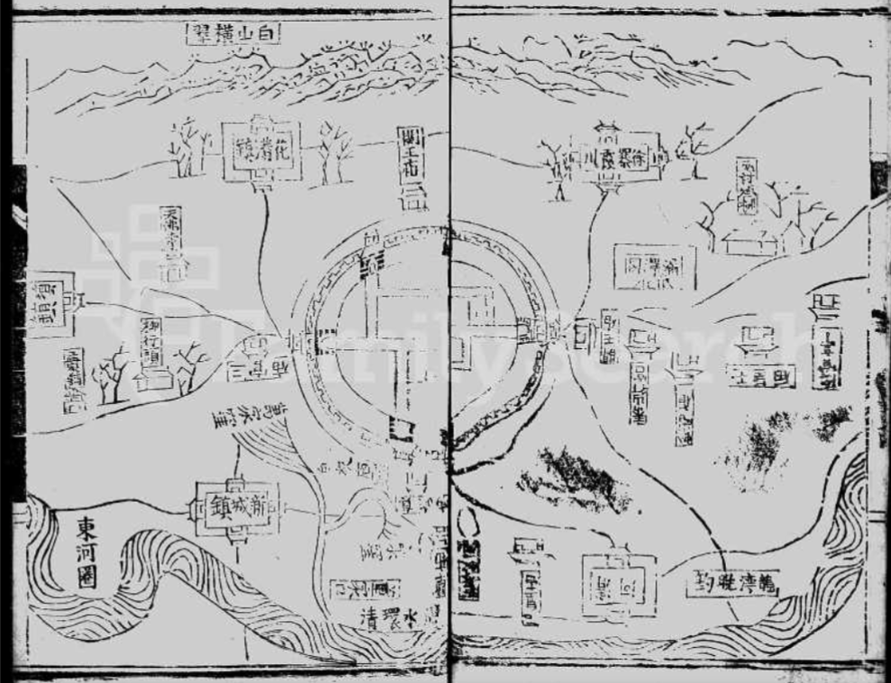 Qingcheng Ming Dynasty